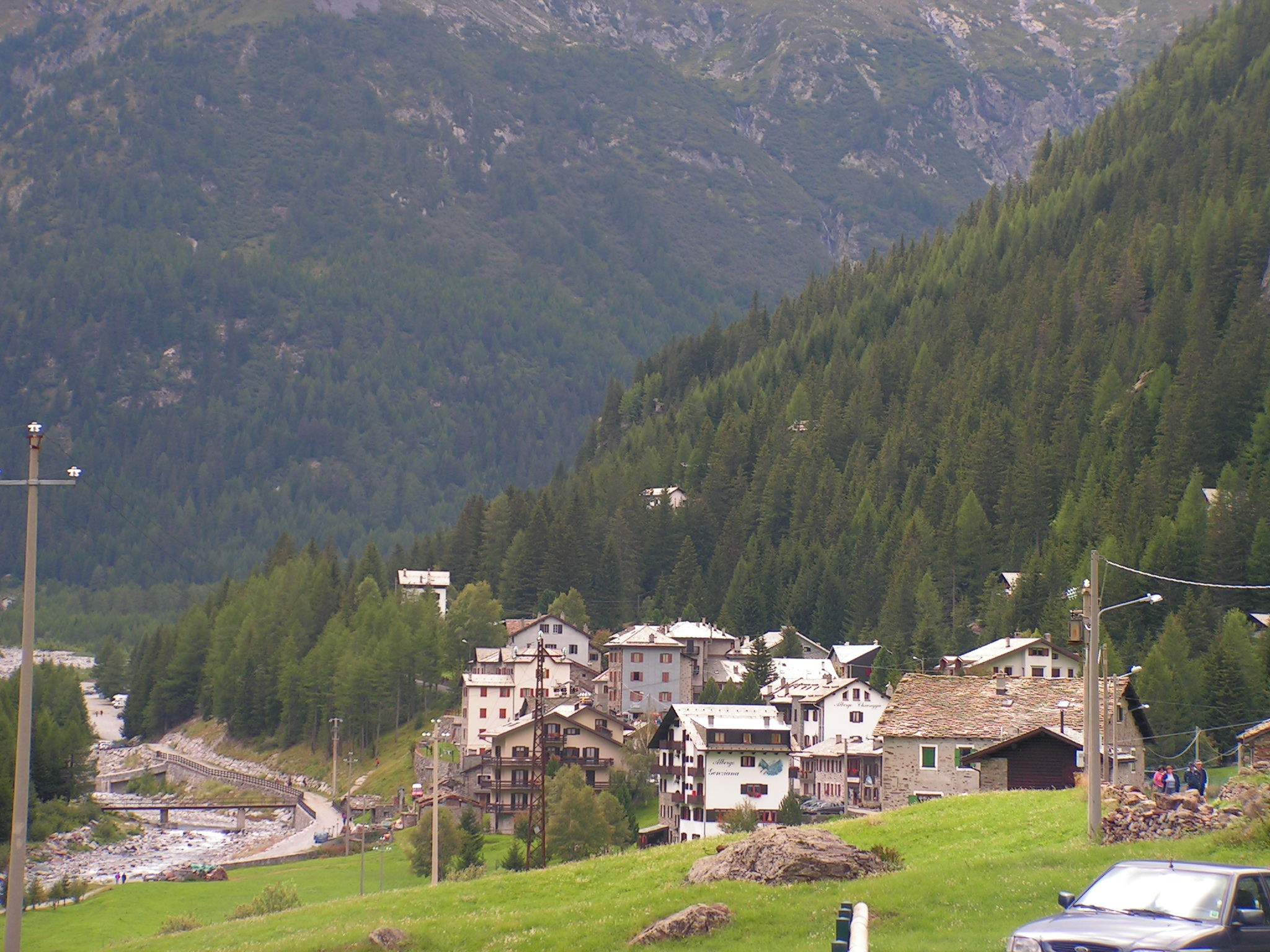 A view of Chiareggio, municipality of Chiesa in Valmalenco (Italy)